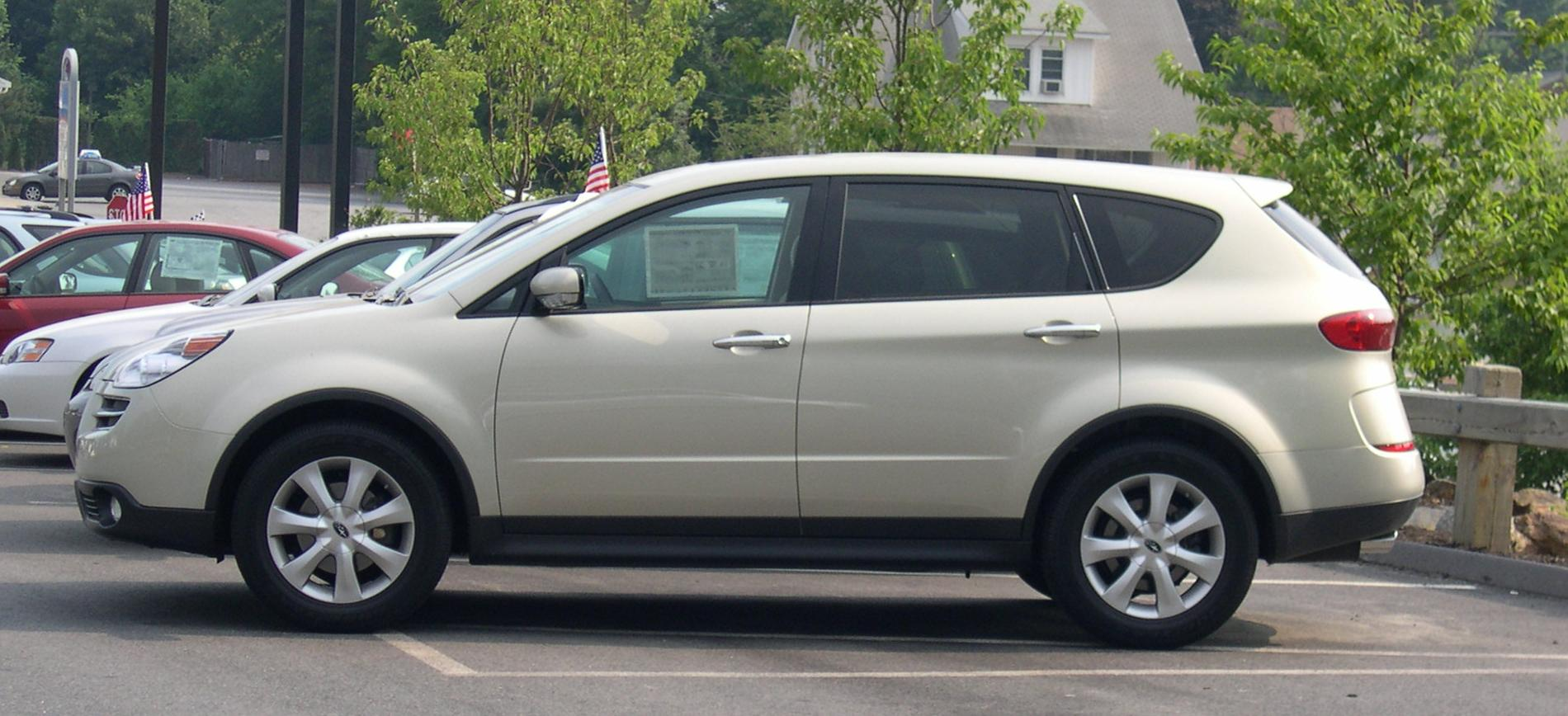 2005 Subaru B9 Tribeca Source: Photo by User:Sfoskett